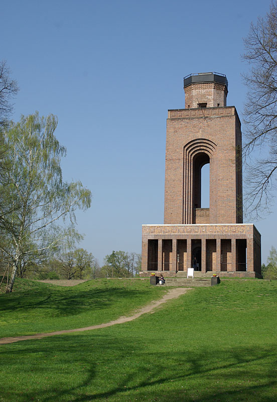 Bismarck Tower in Burg (Spreewald)